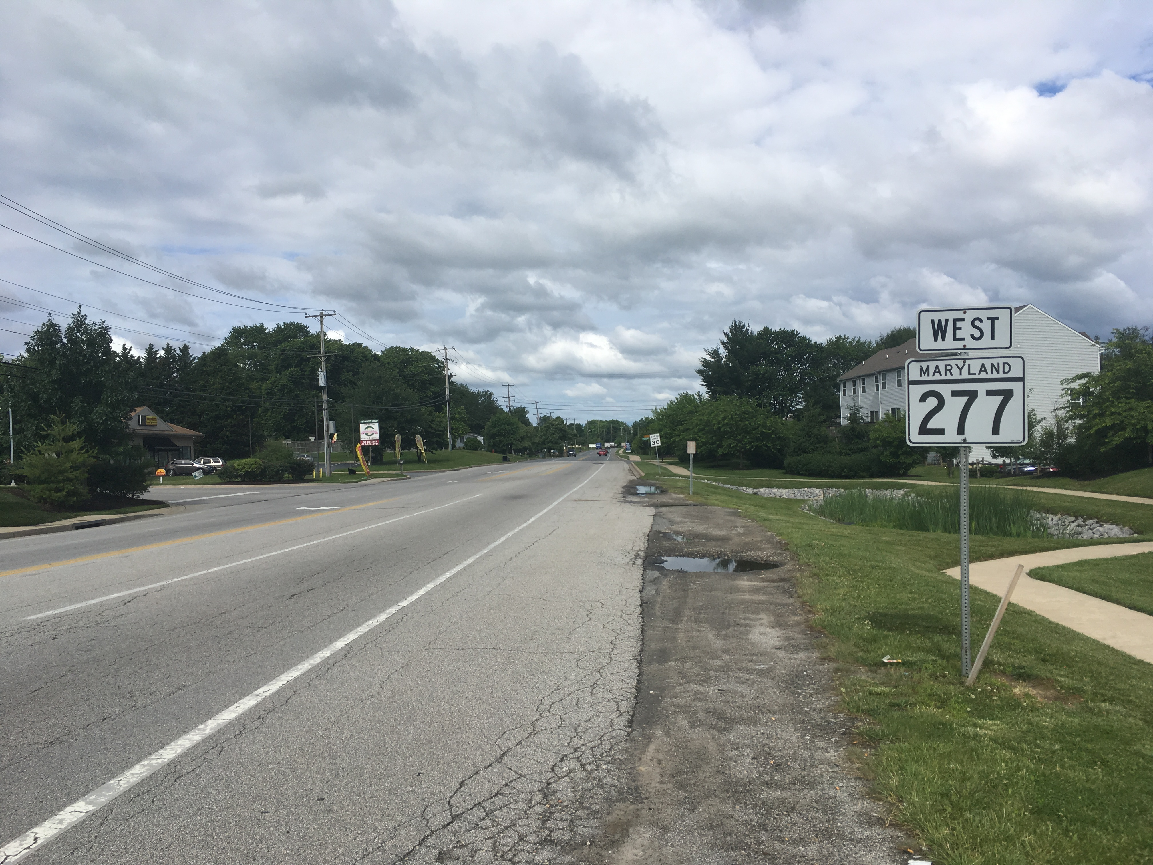 Westbound Maryland Route 277 (Fletchwood Road) past its eastern terminus at Maryland Route 279 (Elkton Road) near Elkton, Maryland